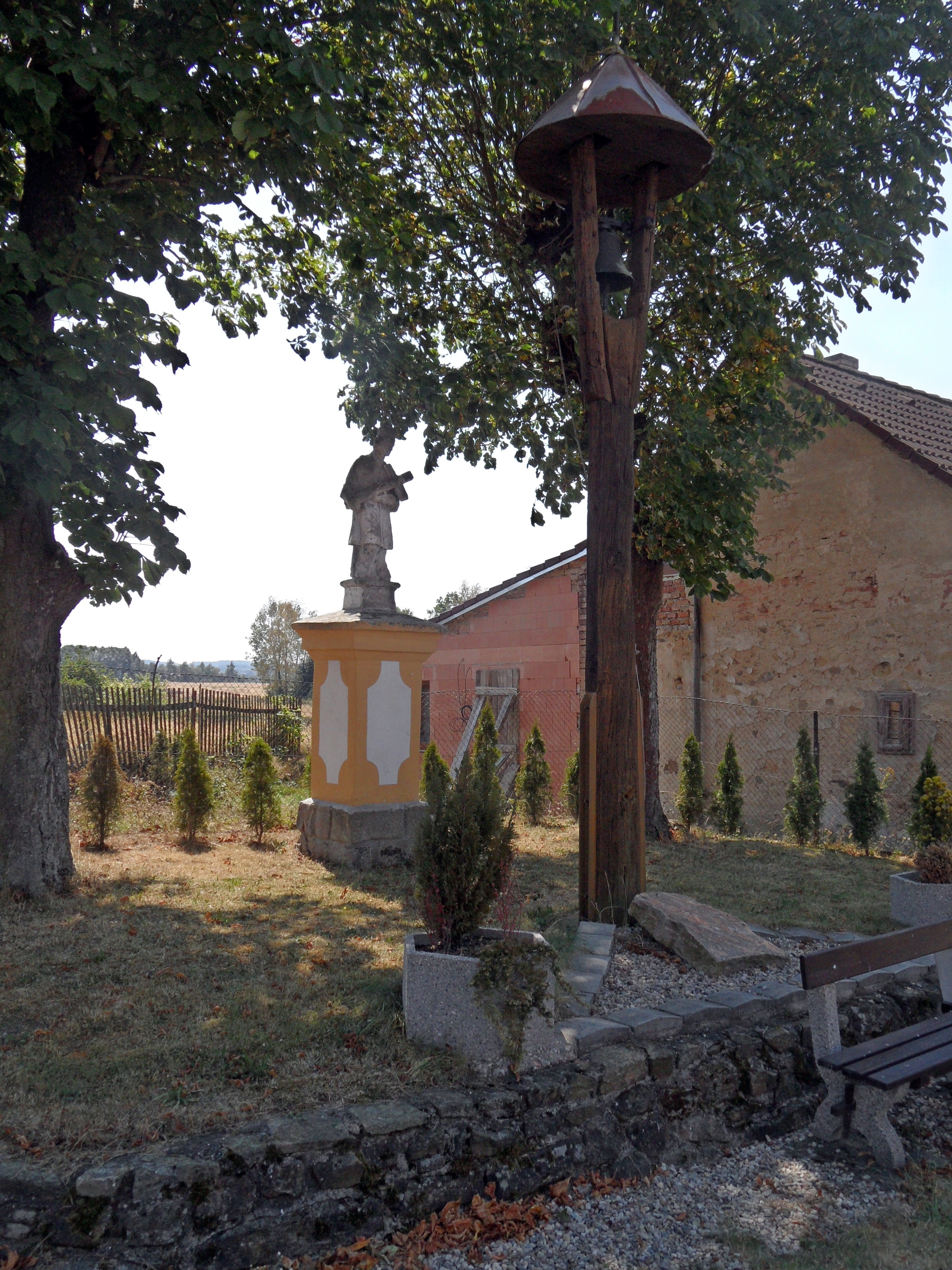 Úhrov F. Bell Tower and Statue of Saint John Nepomucene. Havlíčkův Brod District, the Czech Republic.